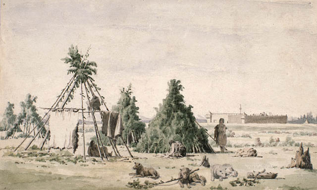 Cree or Assiniboin Lodges in Front of Rocky Mountain Fort (Alta)